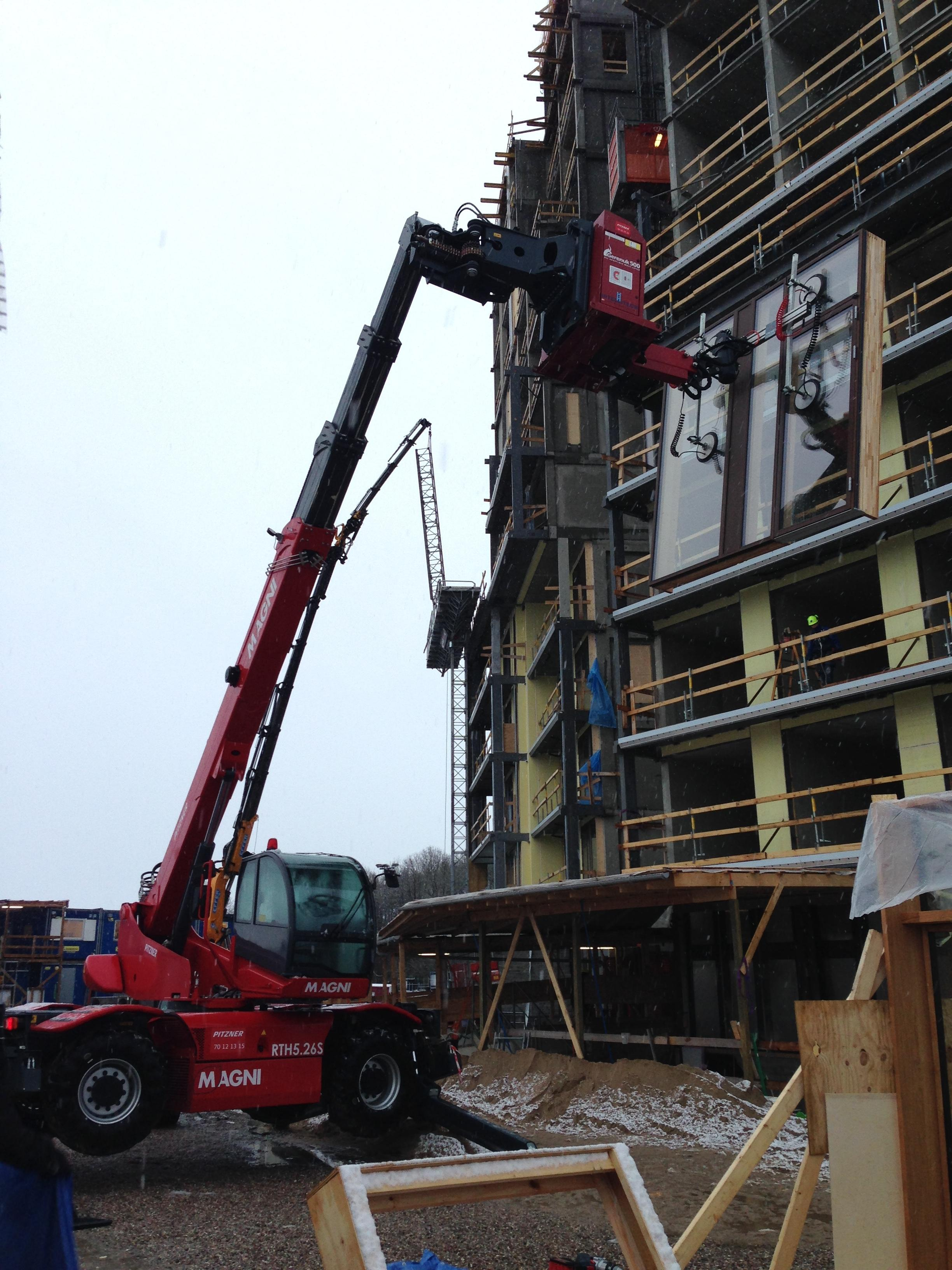 Rotation telehandler with windowmounting